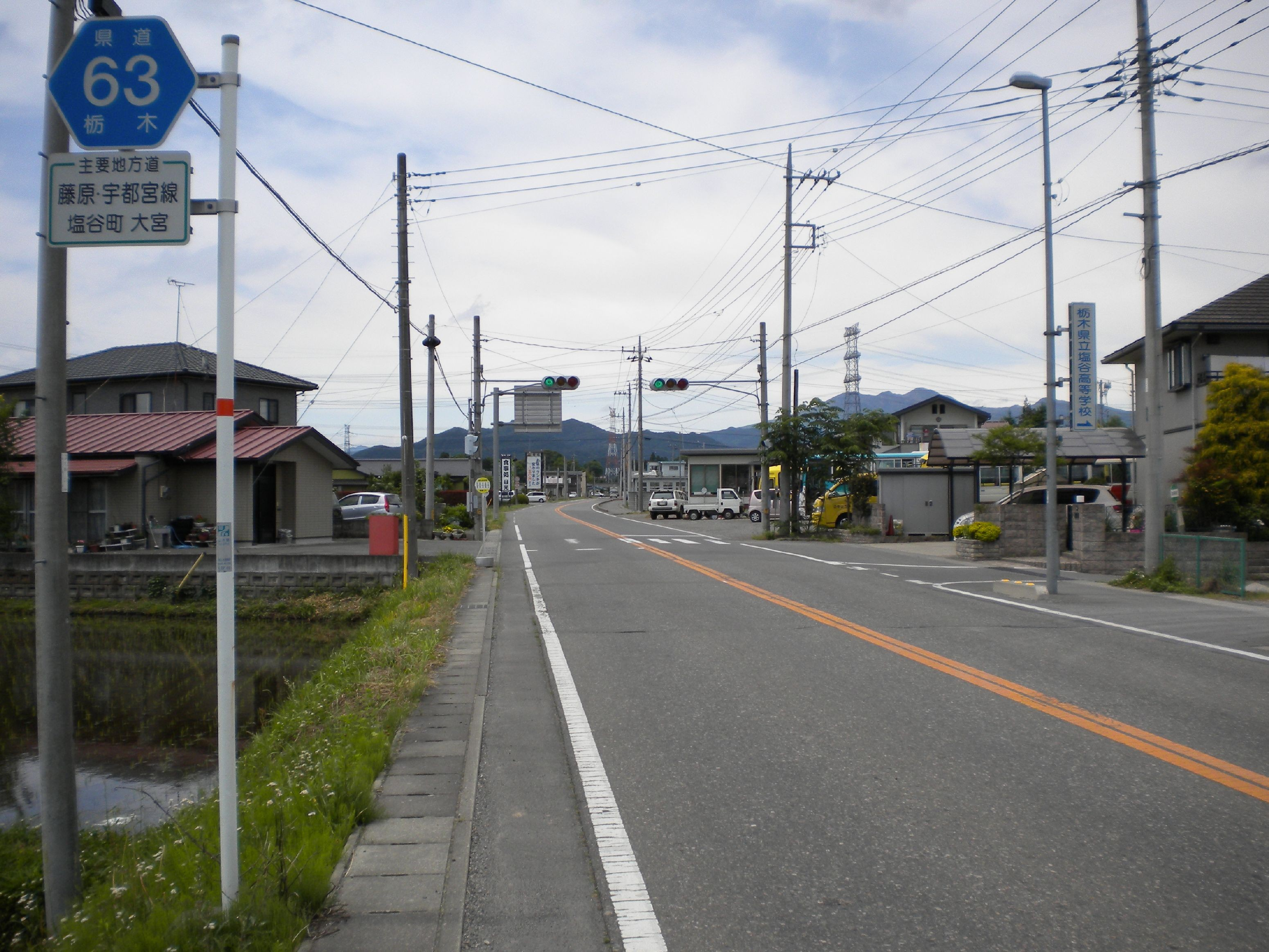 The Tochigi Prefectural Road Route 63 in Omiya, Shioya Town